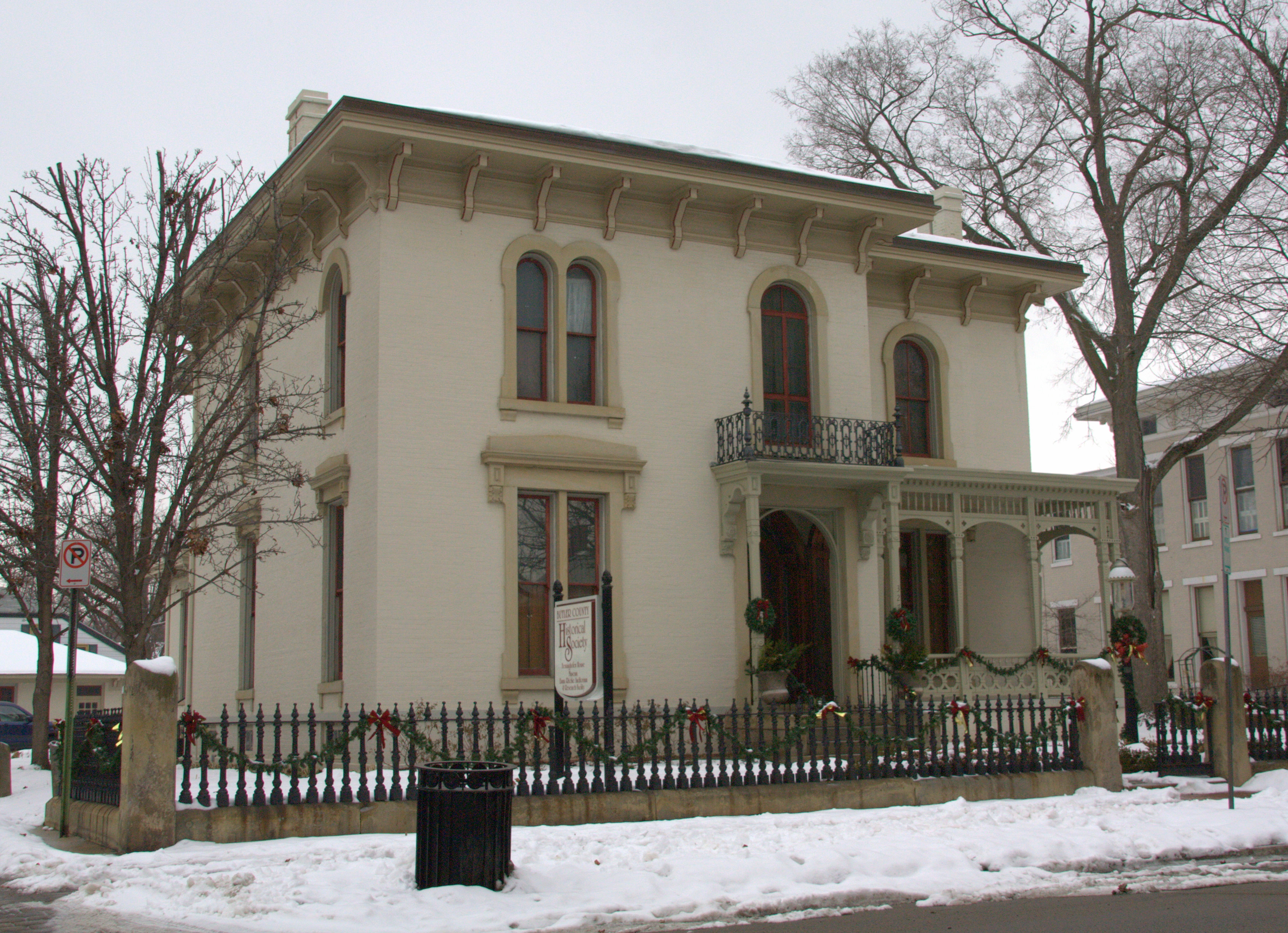 Benninghofen House in Hamilton, OH. Photo by Greg Hume